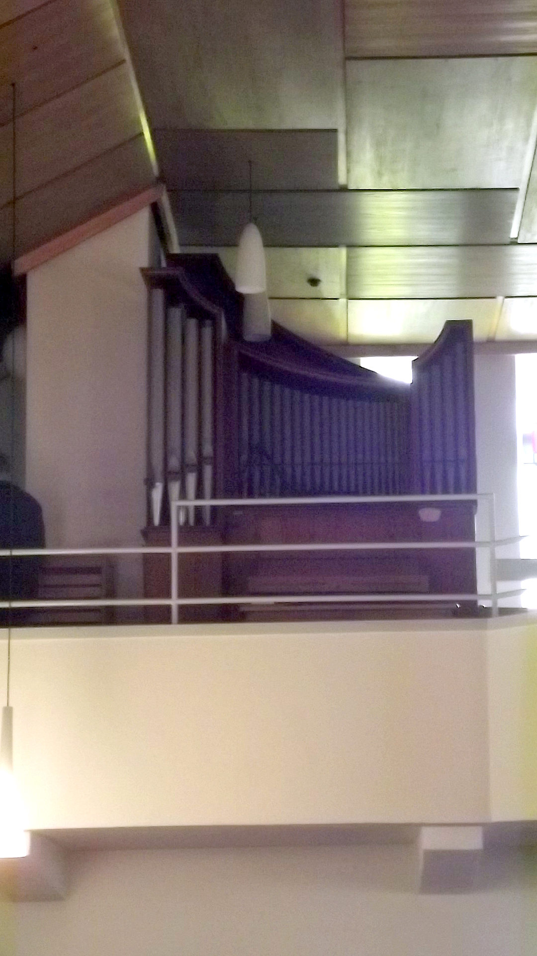 Interior of the protestant church in Fischbach-Camphausen, Saarland, Germany